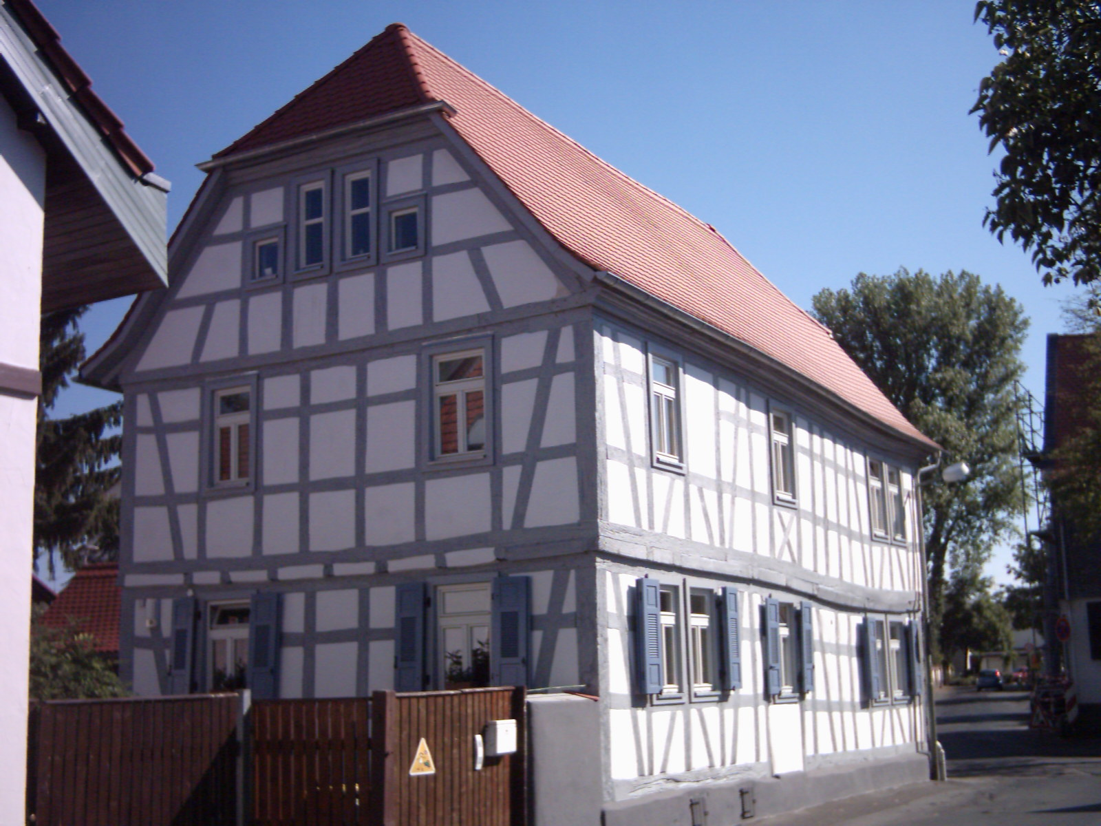 historical timber framed house in Offenbach-Bieber